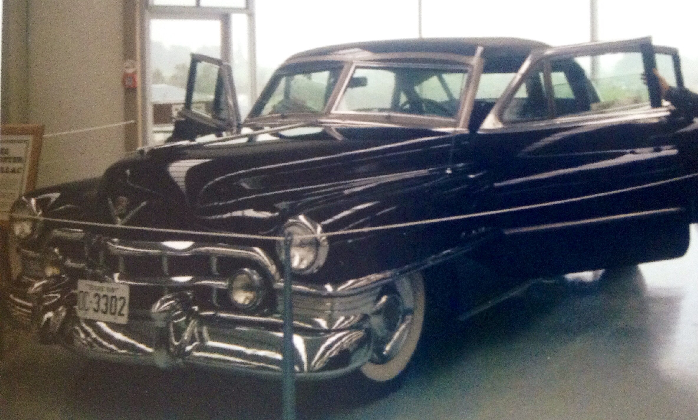 Mickey Cohen's 1950 Cadillac at the Southward Car Museum, Paraparaumu, New Zealand